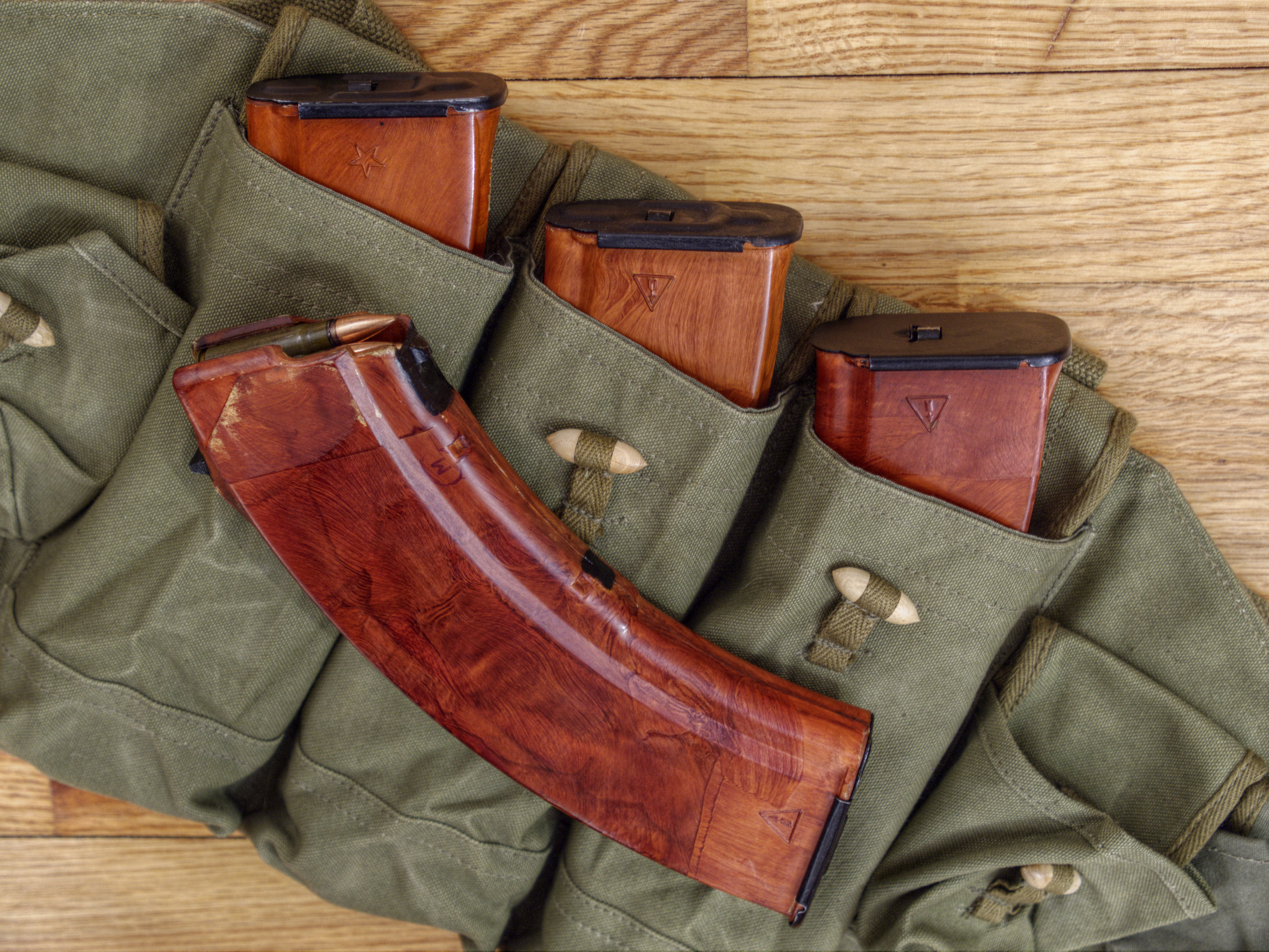 Soviet AK "bakelite" magazines. These rust-colored steel-reinforced 7.62×39mm magazines weigh .24 kg (0.53 lb) empty and are often mistakenly identified as being made of Bakelite (a phenolic resin), but were actually fabricated from two-parts of AG-S4 molding compound (a glass-reinforced phenol-formaldehyde binder impregnated composite), assembled using an epoxy resin adhesive. Noted for their durability, these magazines did however compromise the rifle's camouflage and lacked the small horizontal reinforcing ribs running down both sides of the magazine body near the front that were added on all later plastic 7.62×39mm AK magazine generations fabricated from ABS plastic. Three magazines have an "arrow in triangle" Izhmash arsenal mark on the bottom right. The other magazine has a "star" Tula arsenal mark on the bottom right.